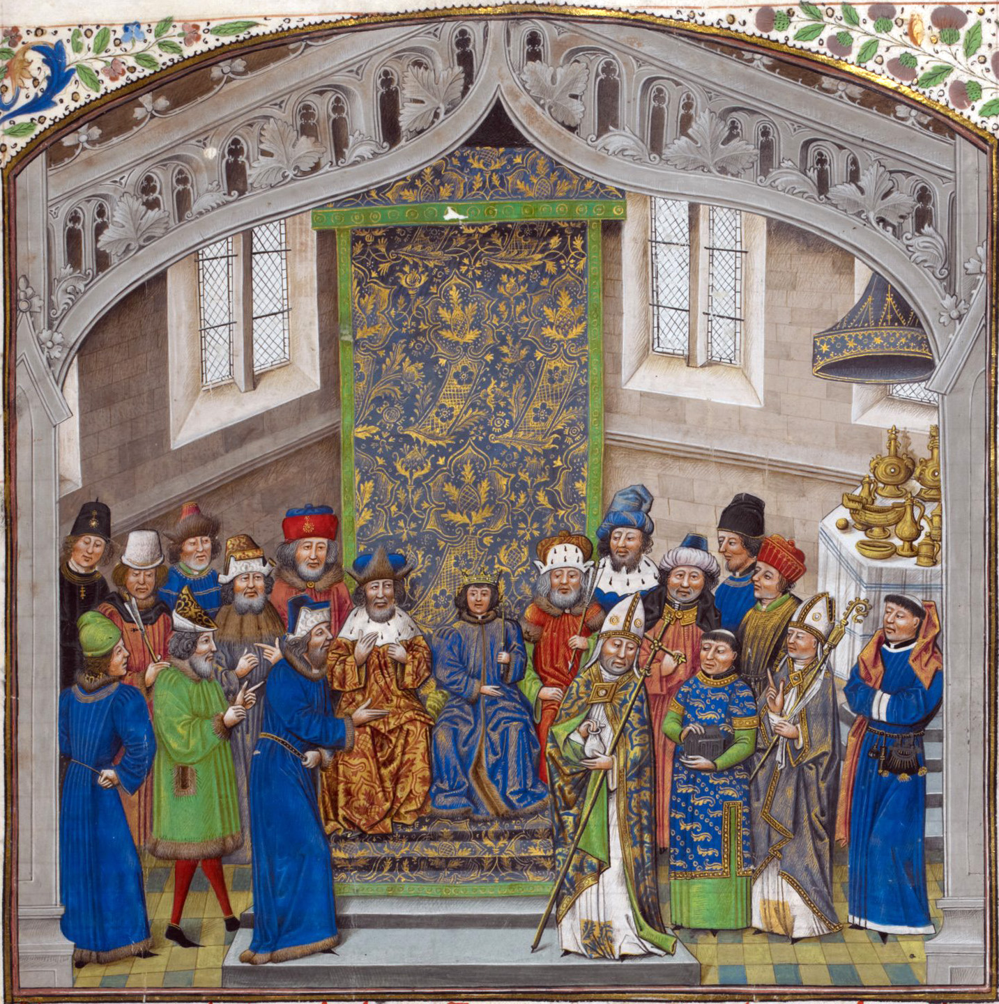 Richard II. of England with his court after his coronation. (British Library, Royal 14 E IV f. 10)